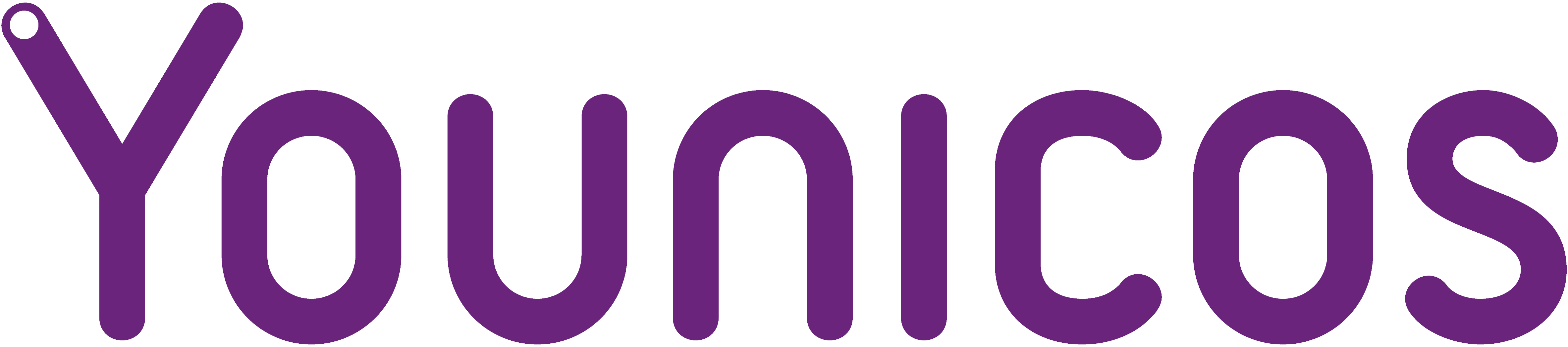 Younicos Logo